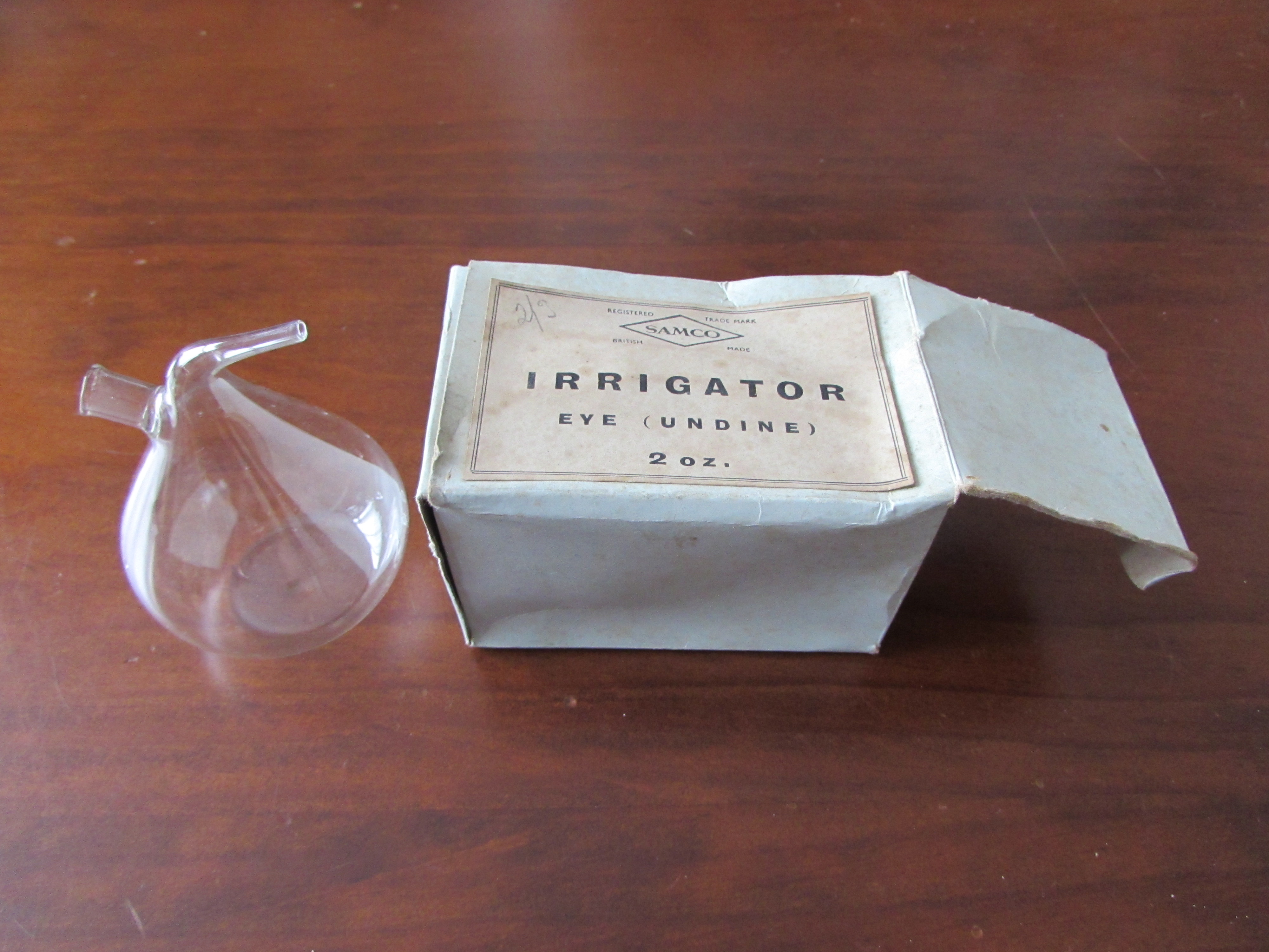 A 2 ounce glass undine with its original box.